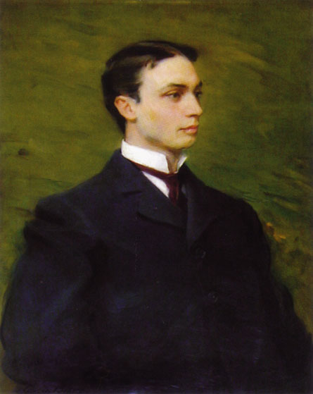 "Posthumous portrait of Henry Howard Houston Jr.," oil on canvas, by the American painter Cecilia Beaux. 33.25 in. x 25 in. Courtesy of the Pennsylvania Academy of Fine Arts, Philadelphia, Pa. Image courtesy of The Athenaeum.